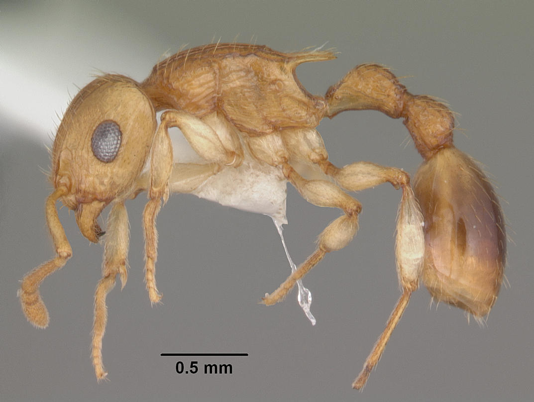 Profile view of ant Rotastruma recava specimen casent0010807.